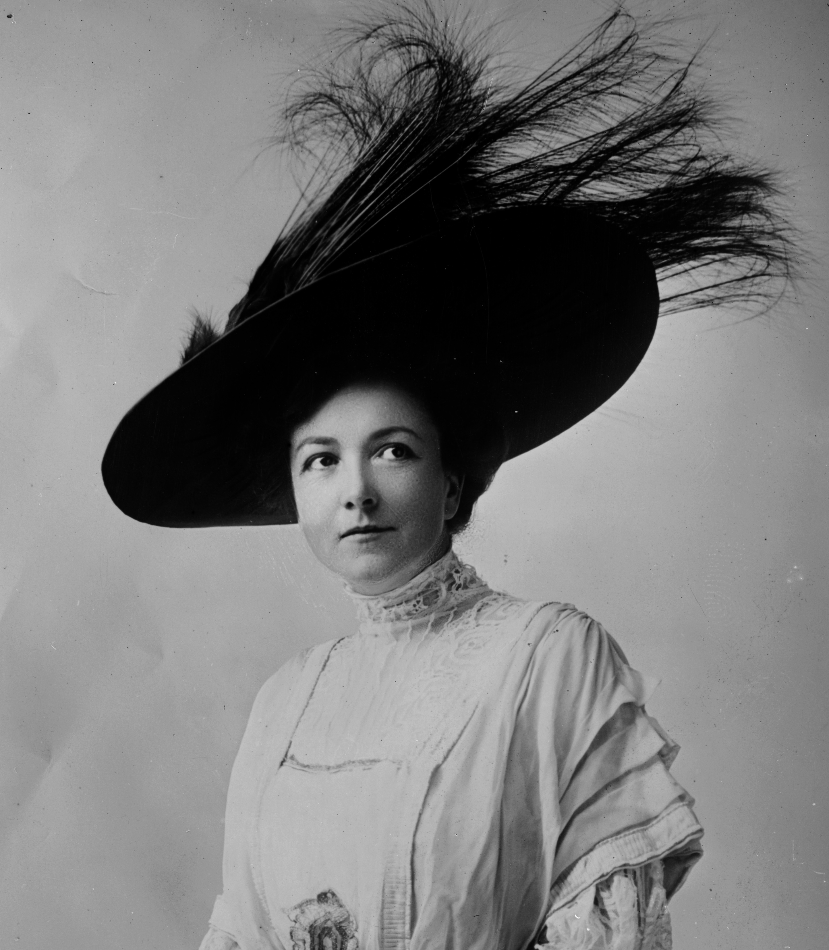 Blanche Bates cropped image to show just face for any profile uses.